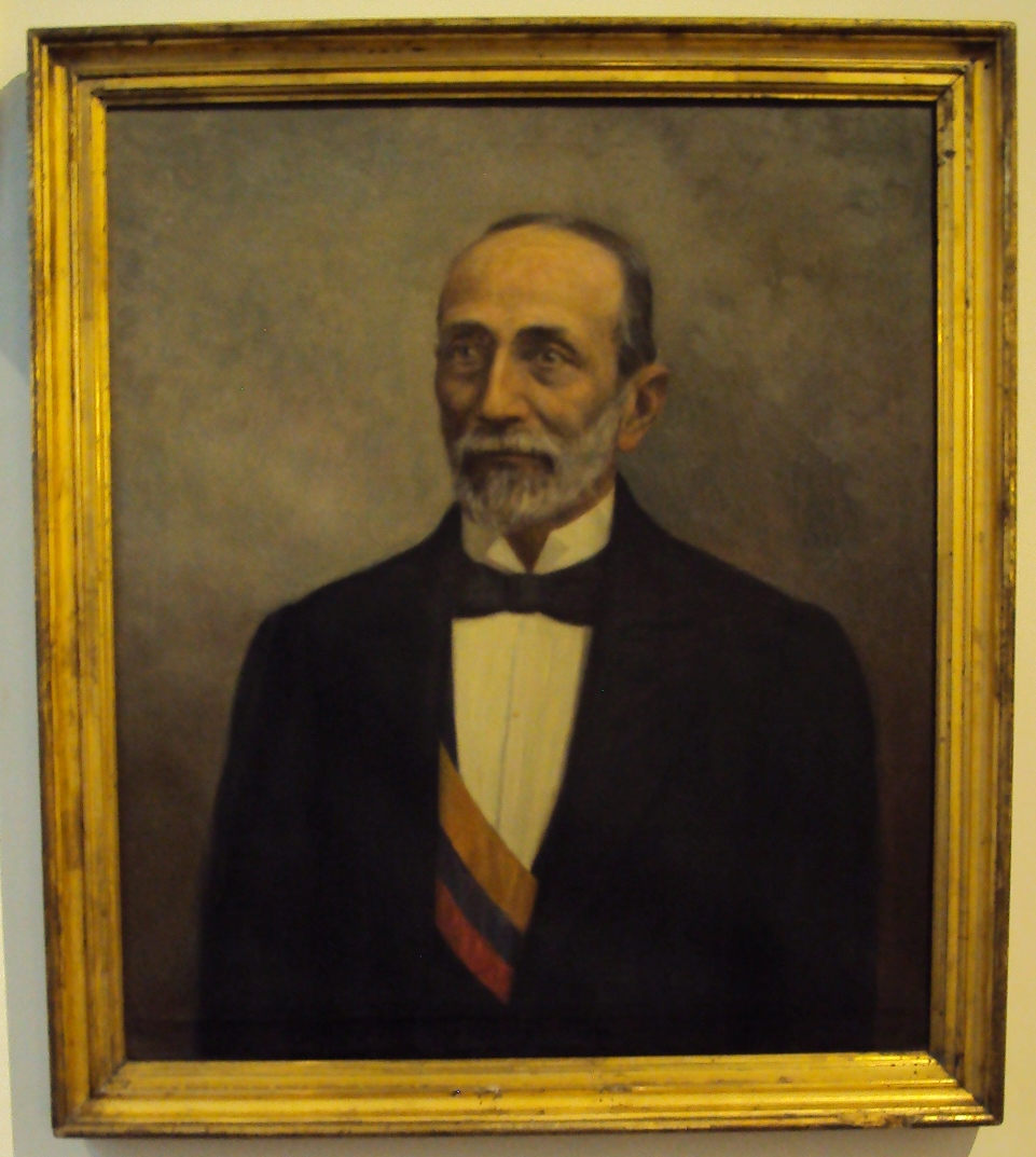 Portrait of Guillermo Quintero Calderon by Silvano Cuéllar